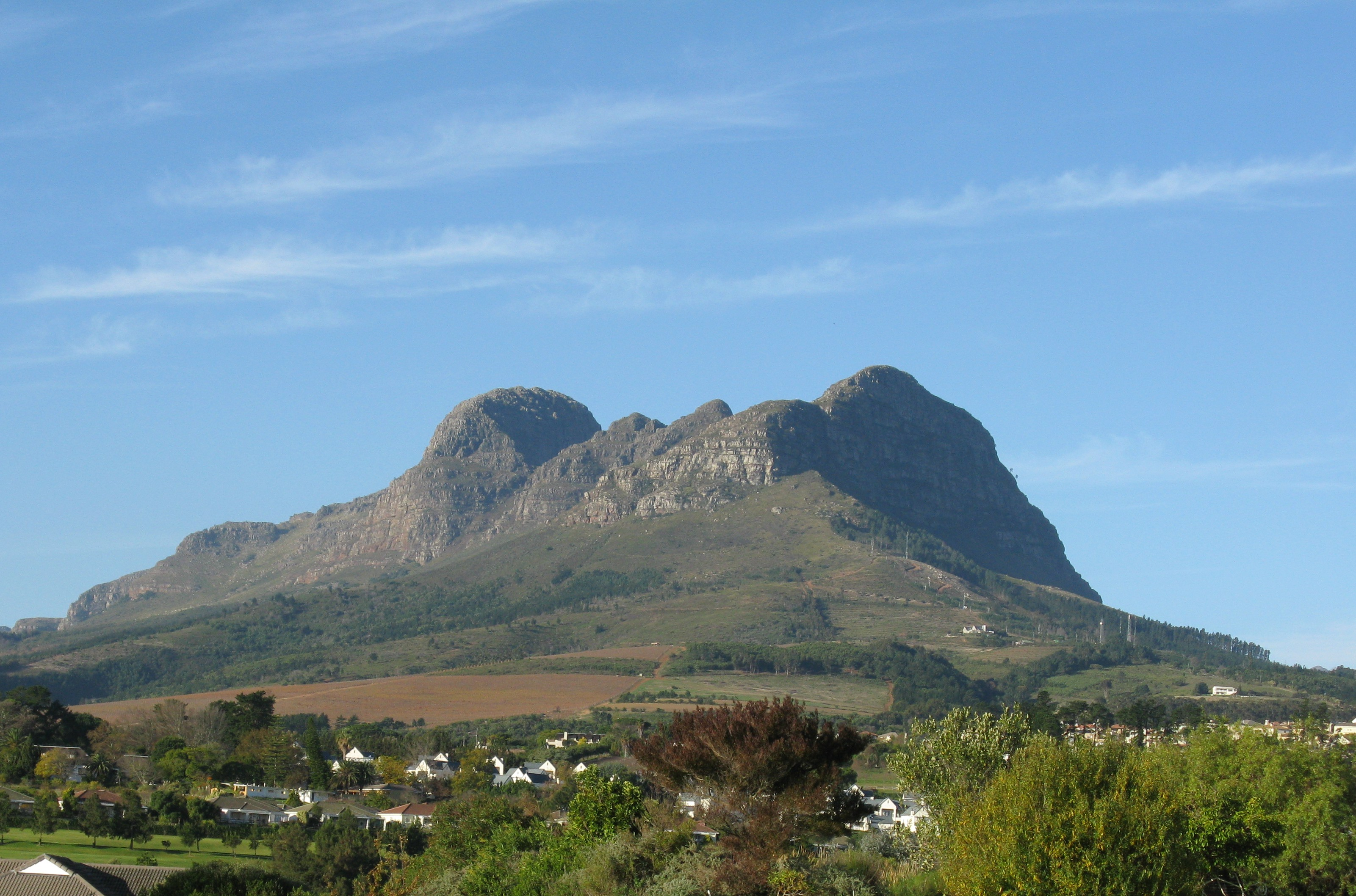 Helderberg as seen from Helderberg Village, a community on its foothills.